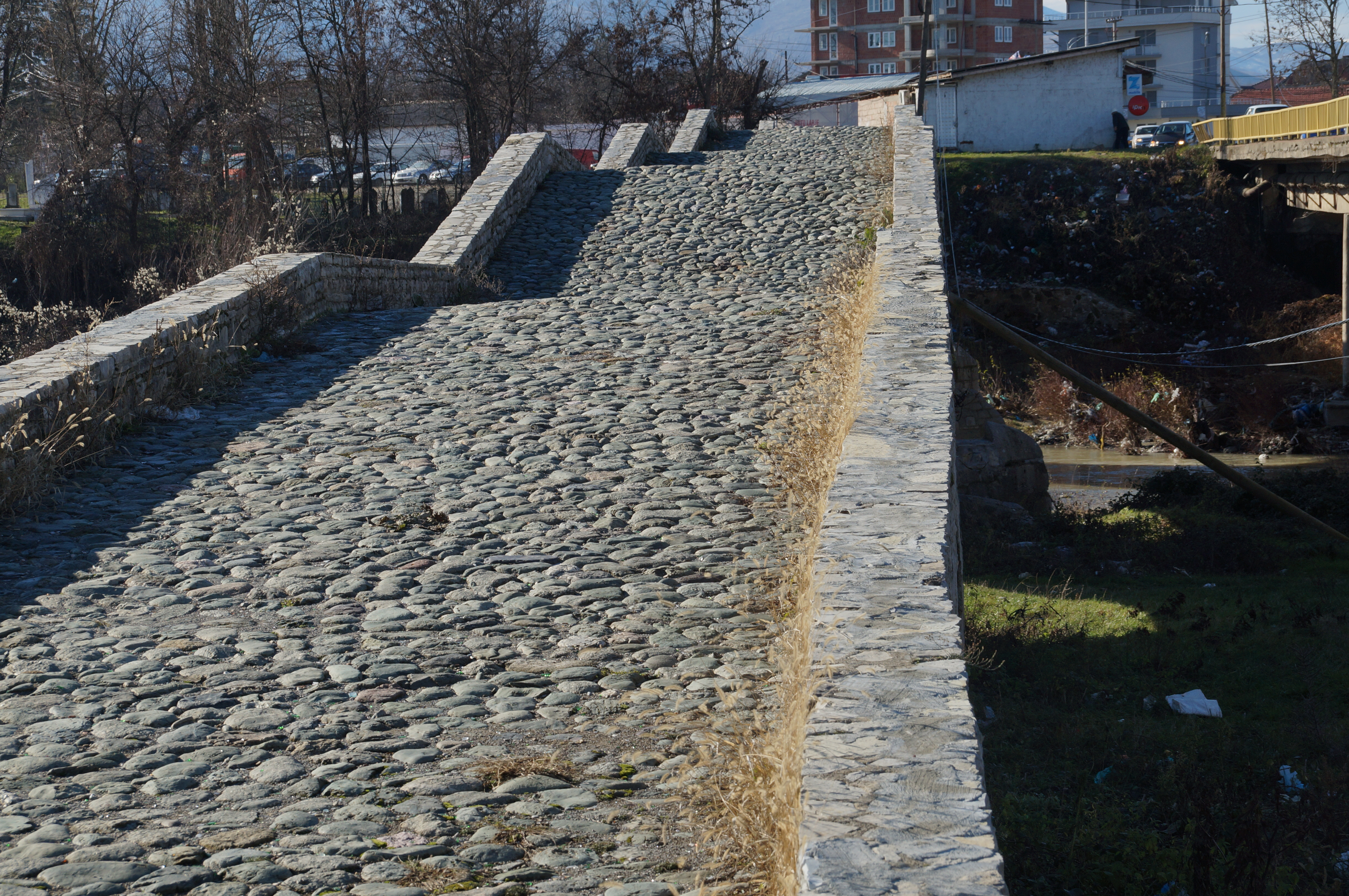 Ura e Tabakëve – ottoman bridge in Gjakova